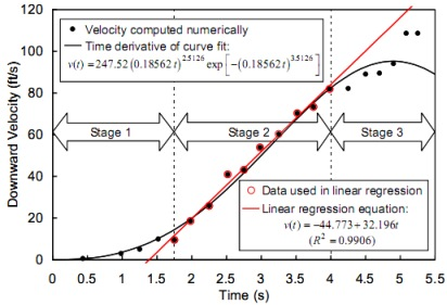 Downward velocity of north face roofline as WTC7 began to collapse